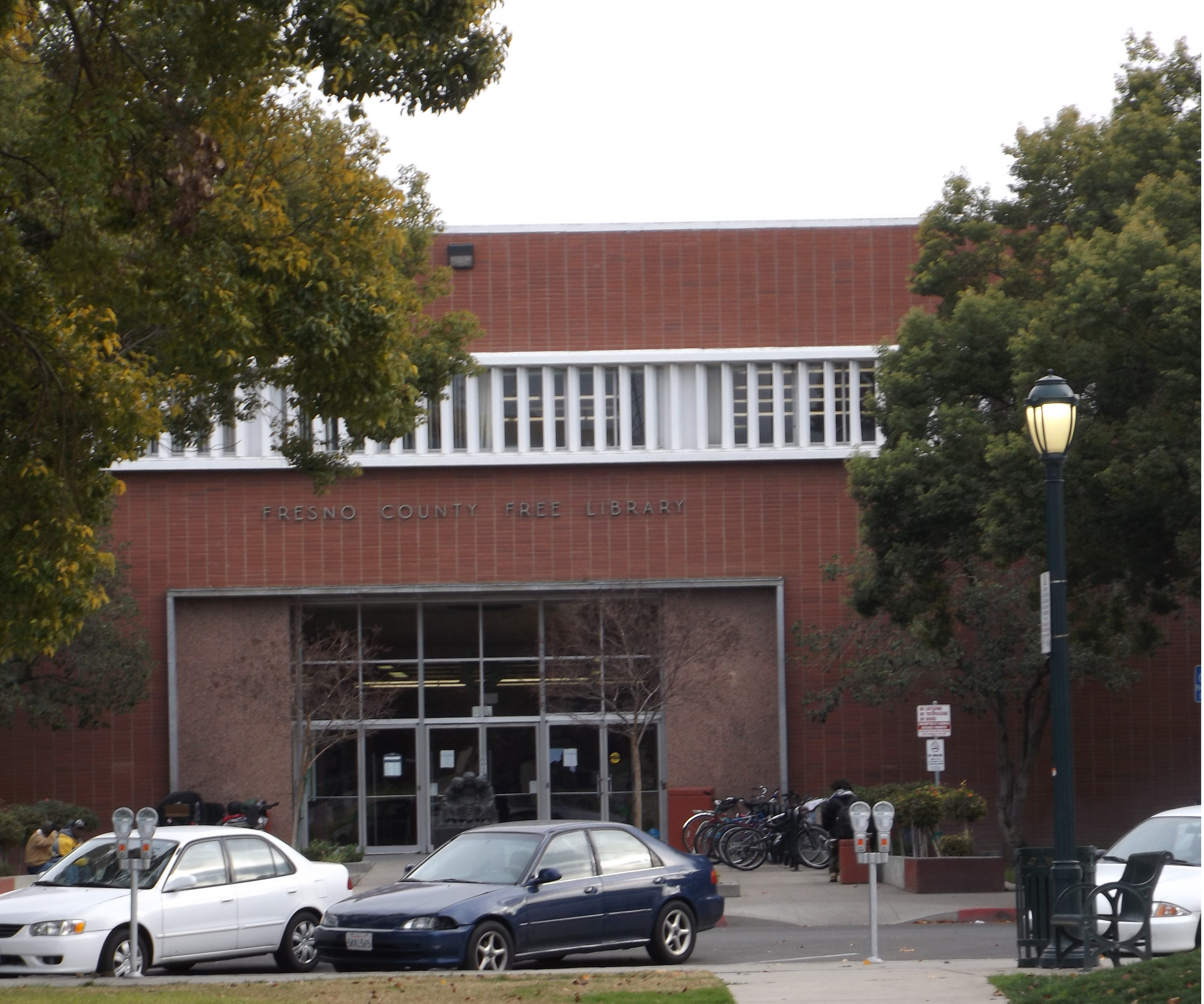 Fresno County Public Library, the present-day Central Library in downtown Fresno, opened on April 13, 1959. It is located at 2420 Mariposa Street, Fresno, CA 93721